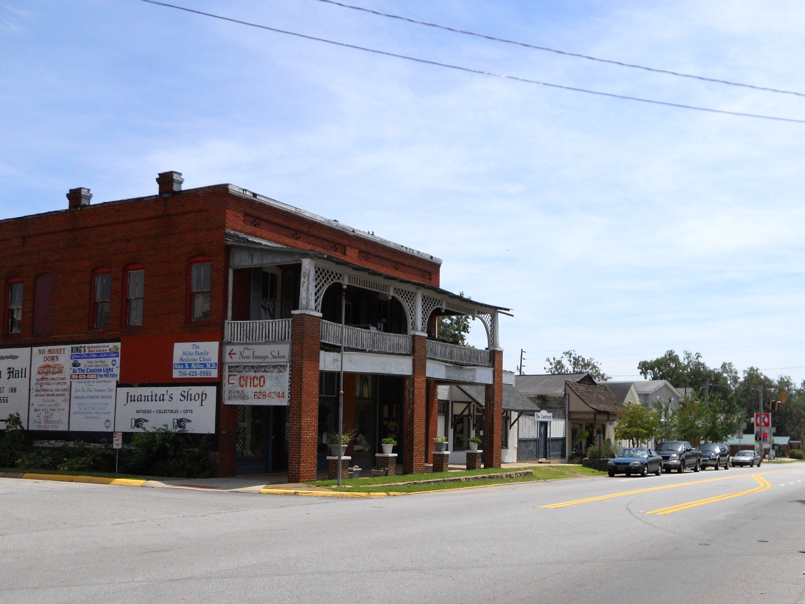 This is a photograph of Hamilton, Georgia. AT one time this was the Post Office in Hamilton, GA